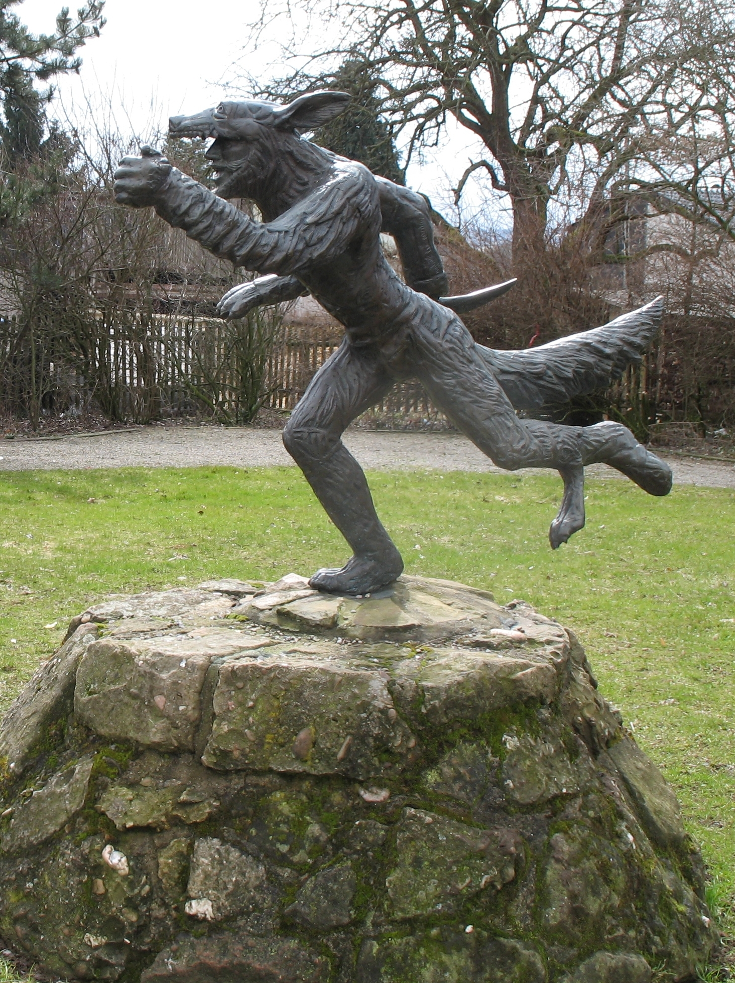 Statue "Sürthgens Mossel" in Bergstein (Hürtgenwald), Germany